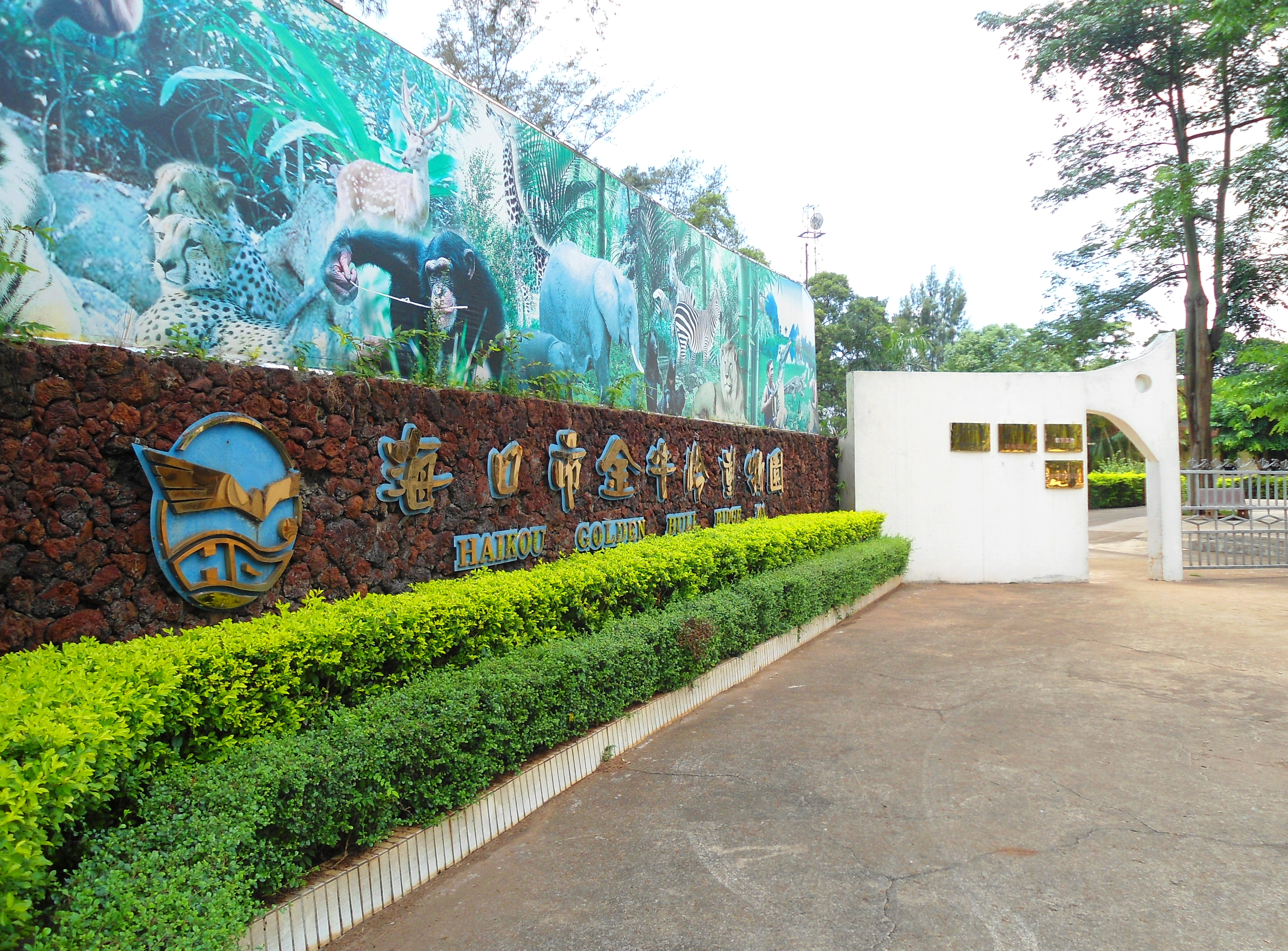 Golden Bull Mountain Ridge Park, Haikou City, Hainan Province, China.